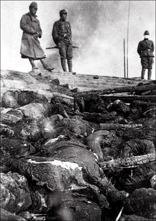 Japanese troops massacre Chinese soldiers and civilians along the Yangtze River and burned the dead. Nanjing, China, 1937.